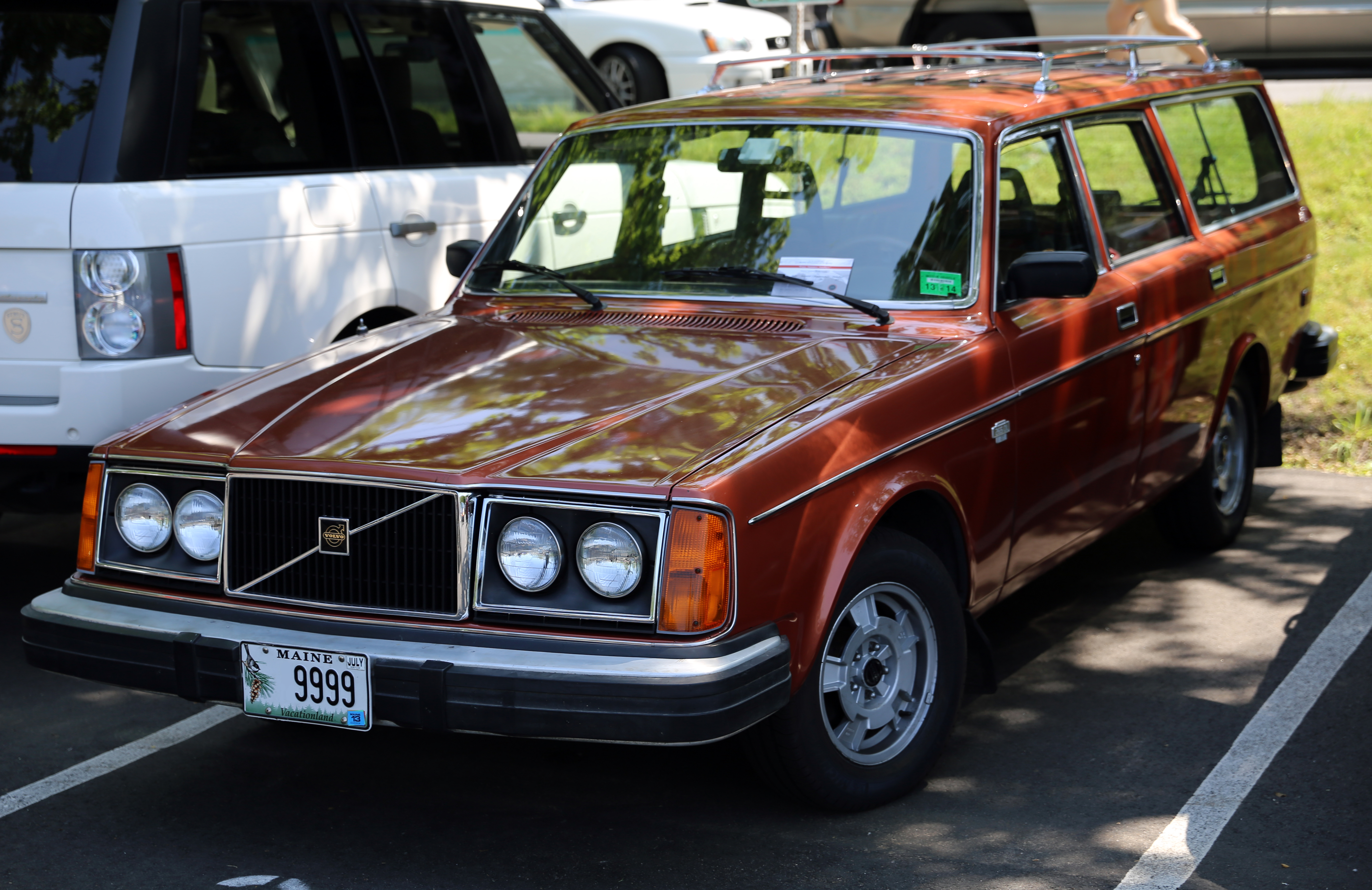 1976 or 1977 Volvo 265 DL (2.7 litre, automatic) seen in the parking lot of the 2013 Greenwich Concours d'Elegance. These North American market headlights are quite horrible, but I kinda like them.